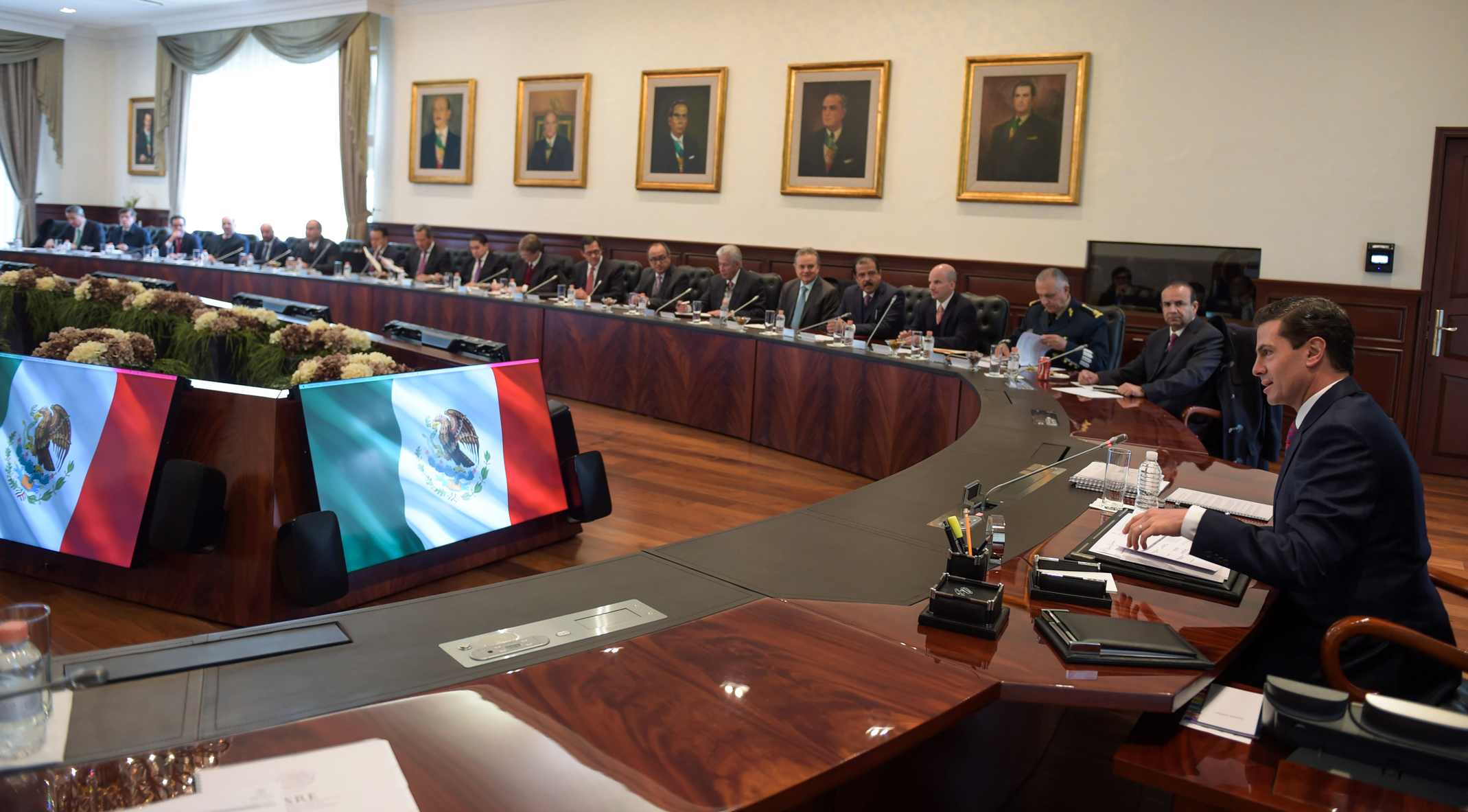 Meeting of the cabinet of Mexican President Enrique Peña Nieto